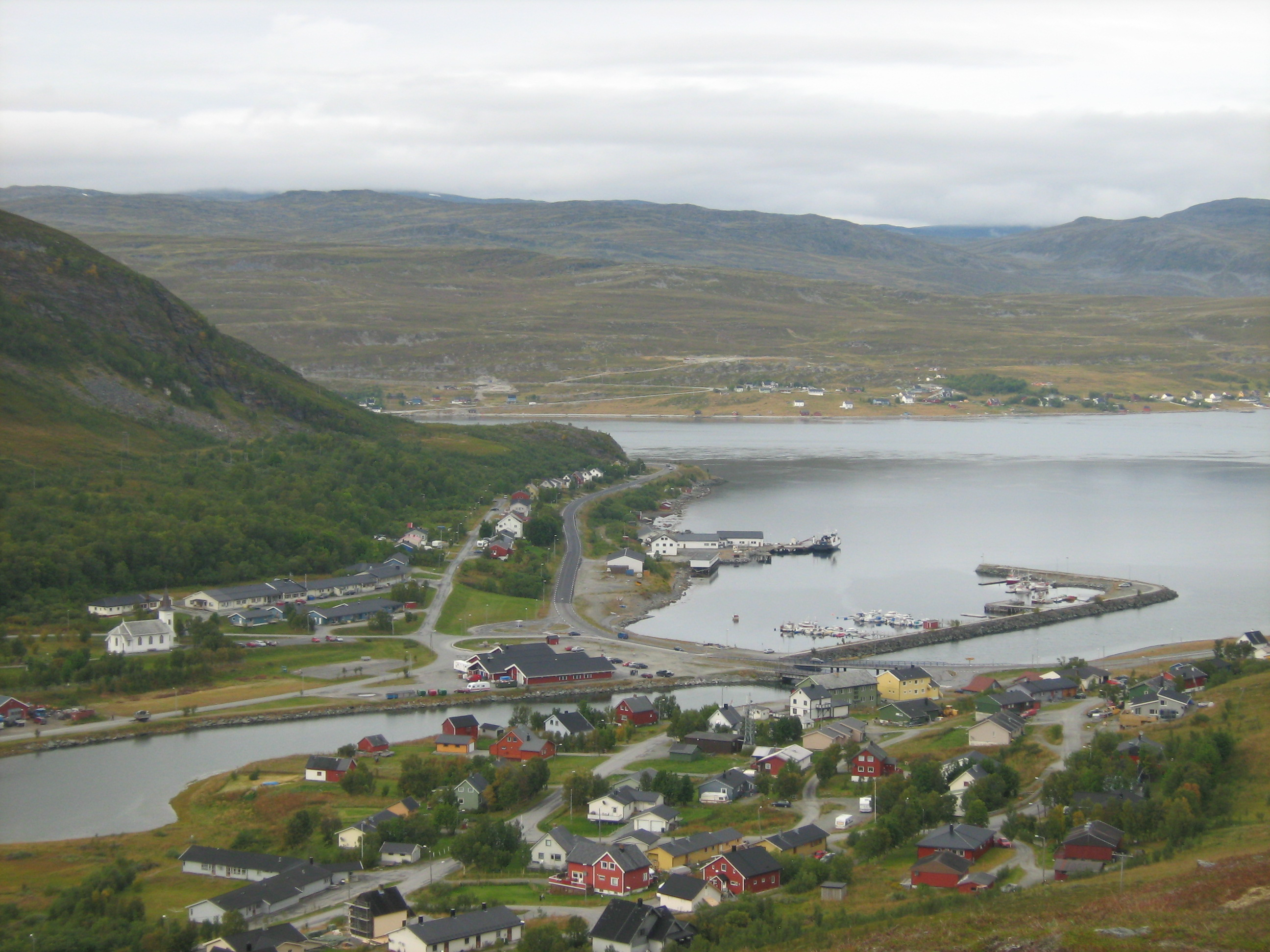 The village Kvalsund (Sámi: Ráhkkerávju) in Finnmark, Norway